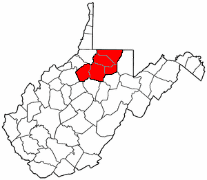 Public domain map courtesy of The General Libraries, The University of Texas at Austin, modified to show counties. See Wikipedia:U.S. county maps.